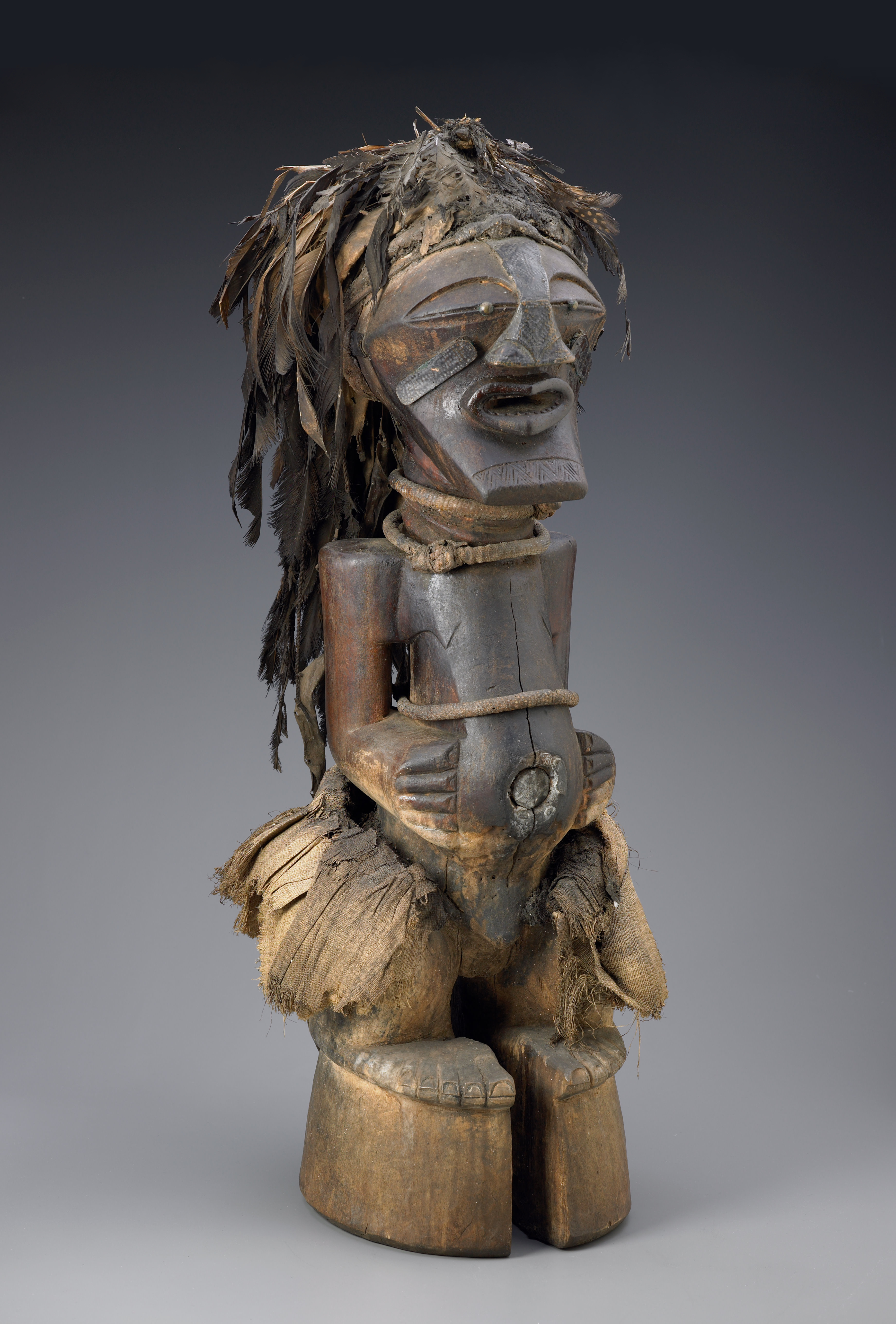 3/4 View of African Songye Power figure in the collection of the Indianapolis Museum of Art. Accession number 1989.1196. Height 33 inches. Photo take by Mike Rippy, IMA collections photographer. See related radiographic image. Detailed Radiographic Image of an African Songye Power Figure in the collection of the Indianapolis Museum of Art (2005.21)